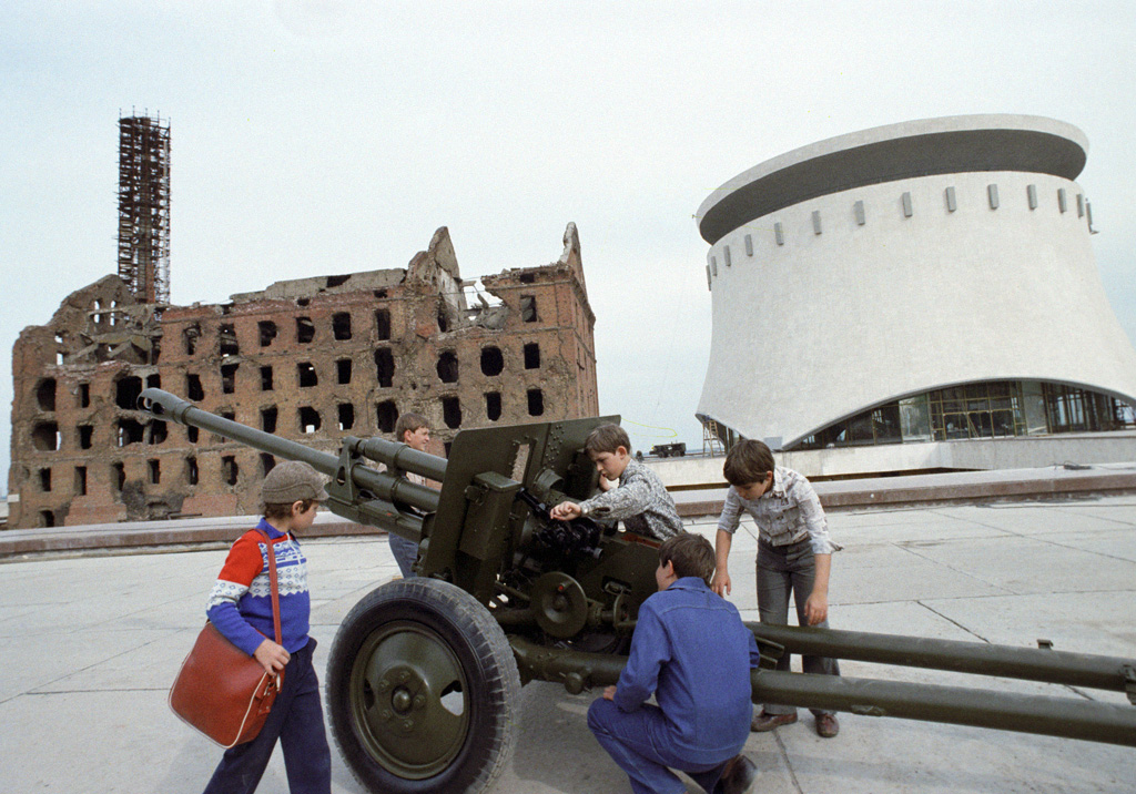 “The 'Battle of Stalingrad' memorial complex”. Children examine a cannon in the square in front of the 'Battle of Stalingrad' panoramic museum (right) and former mill (left), left as a monument to the city defenders.